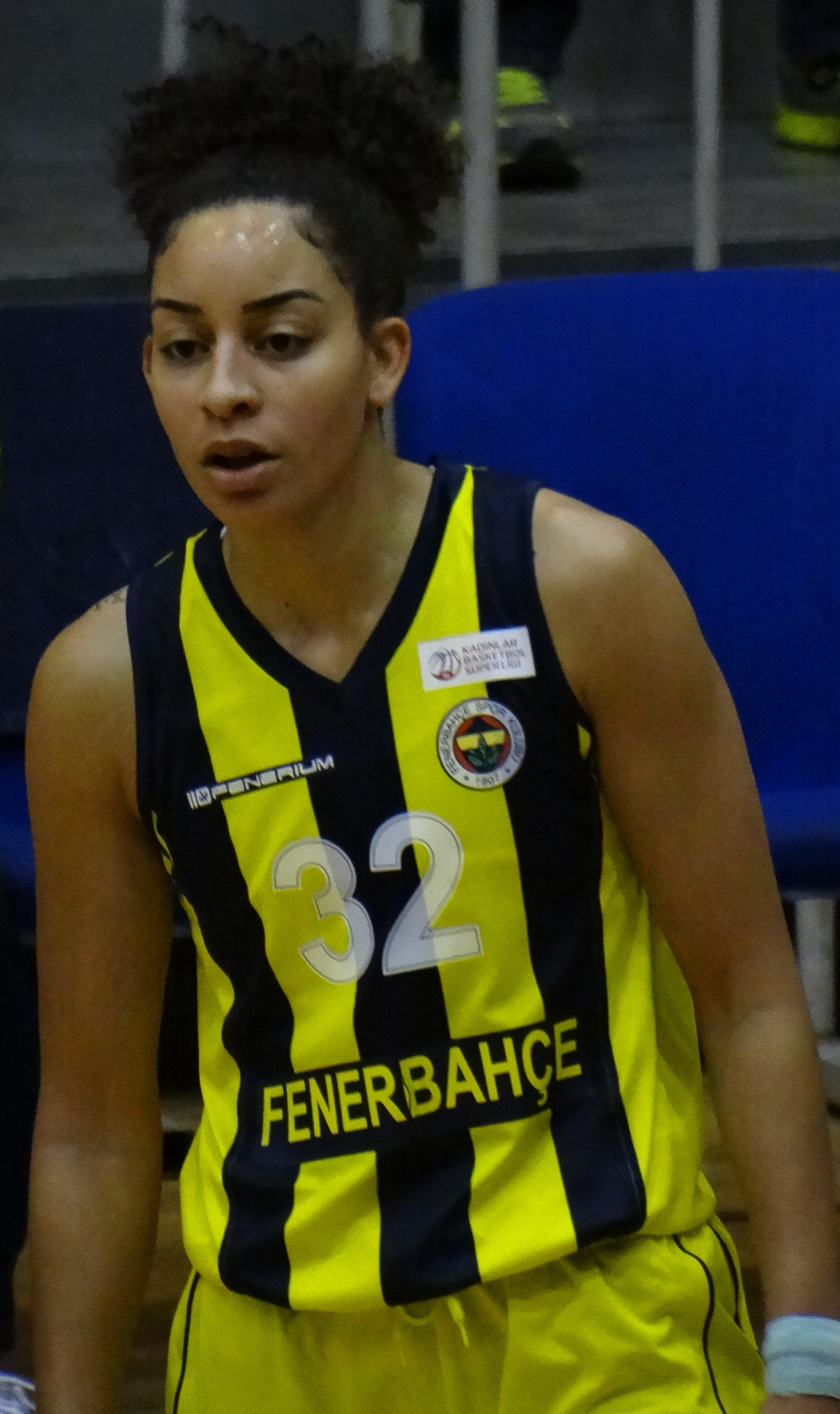 Bria Hartley 32 Fenerbahçe women's basketball TWBL 20181216